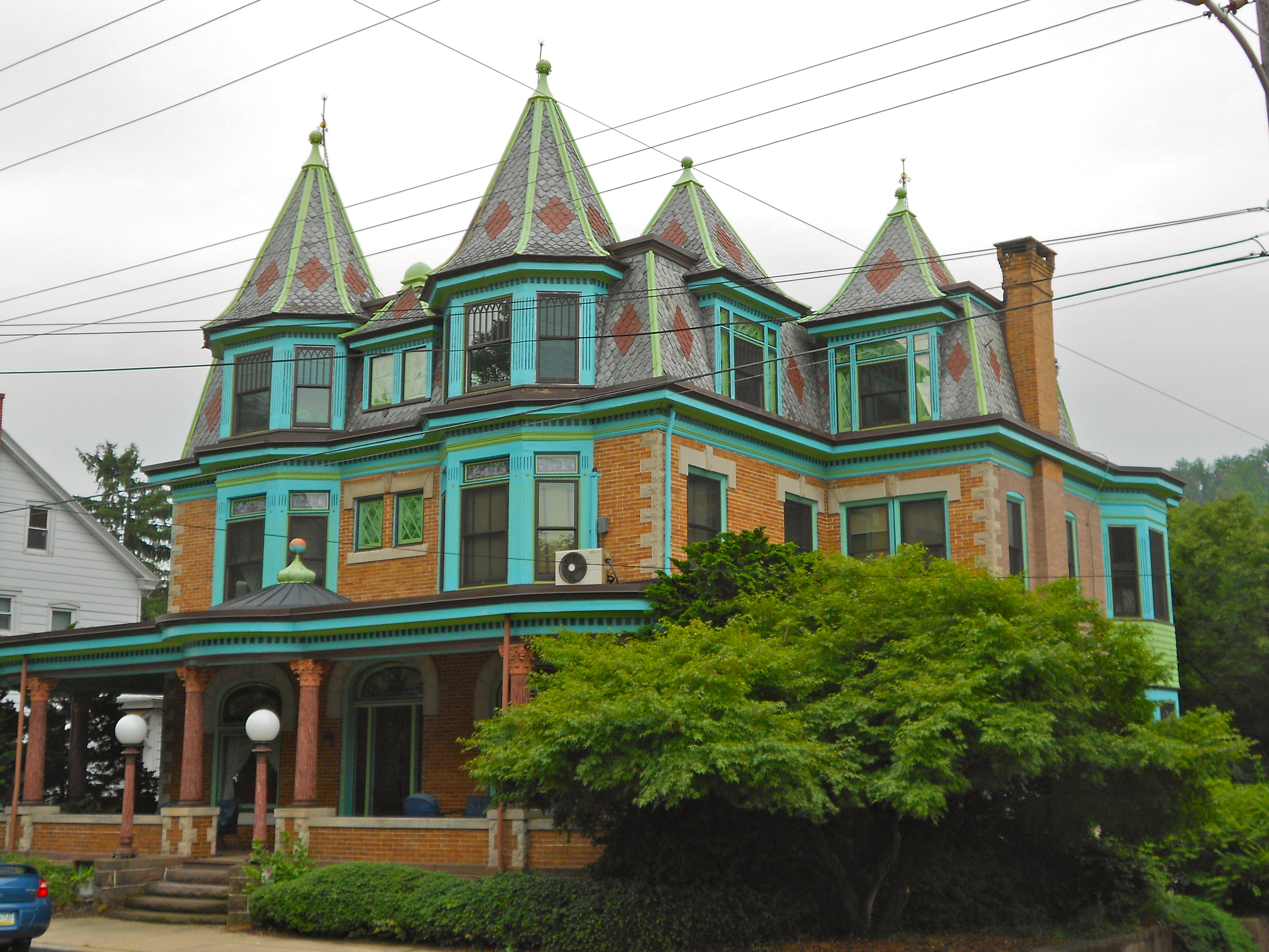 House on West Main Street (corner at Willow Street - maybe number 83?) in Adamstown, Lancaster County, Pennsylvania. Spectacular Second Empire/Queen Anne style house (or maybe just call it "Eclectic Victorian")